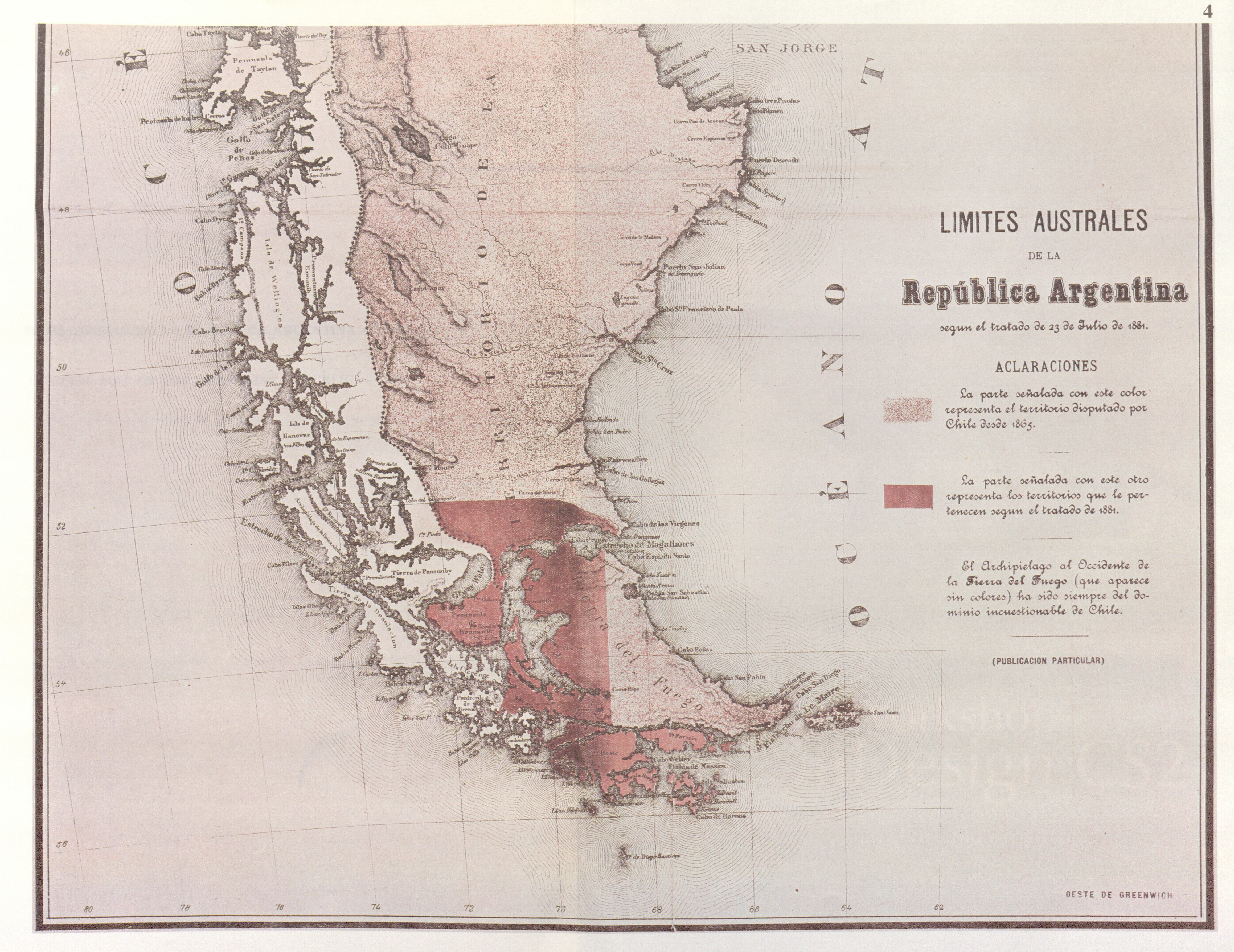 Parcial reproduction of the first argentinian map showing the boundaries laid down in the Boundary Treaty of 23 July 1881, appeared in "La Ilustracion Argentina" issue of 10 November 1881 in Buenos Aires. The copy reproduced here is one handed to the British Minister Plenipontentiary in Buenos Aires by Dr. Bernardo de Irigoyen, Argentine Minister of Forein Affairs who negotiated and signed the Boundary Treaty. The original is located in the official British Archives. The British Minister sent it to his Government with the comment that the dark shaded area "comprising the Strait of Magellan, half of Tierra del Fuego and all the southern islands, represent was actually has been ceded to Chile by the recent Treaty."